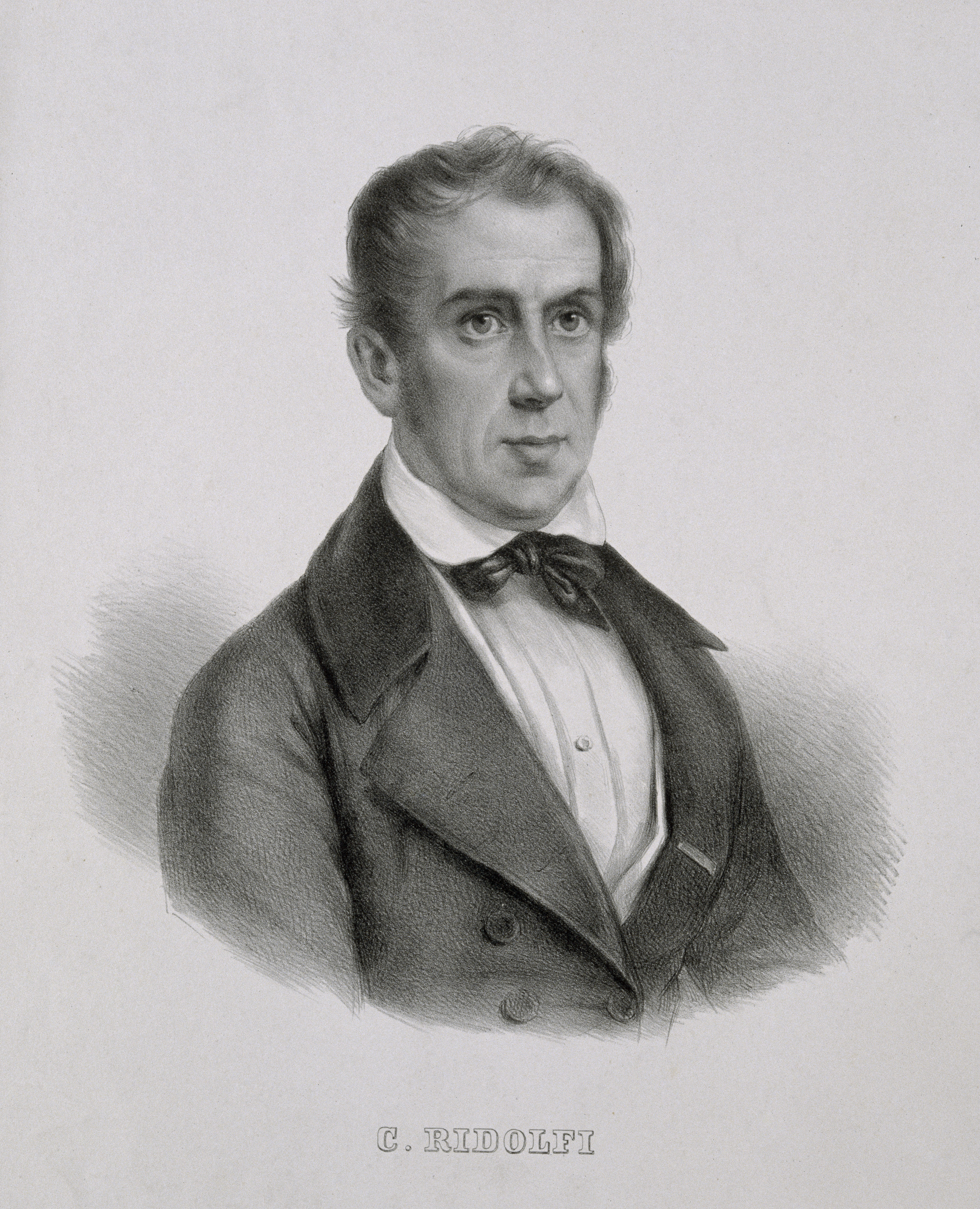 Cosimo, Marchese di Ridolfi. Lithograph. Iconographic Collections Keywords: portrait prints; Cosimo Ridolfi